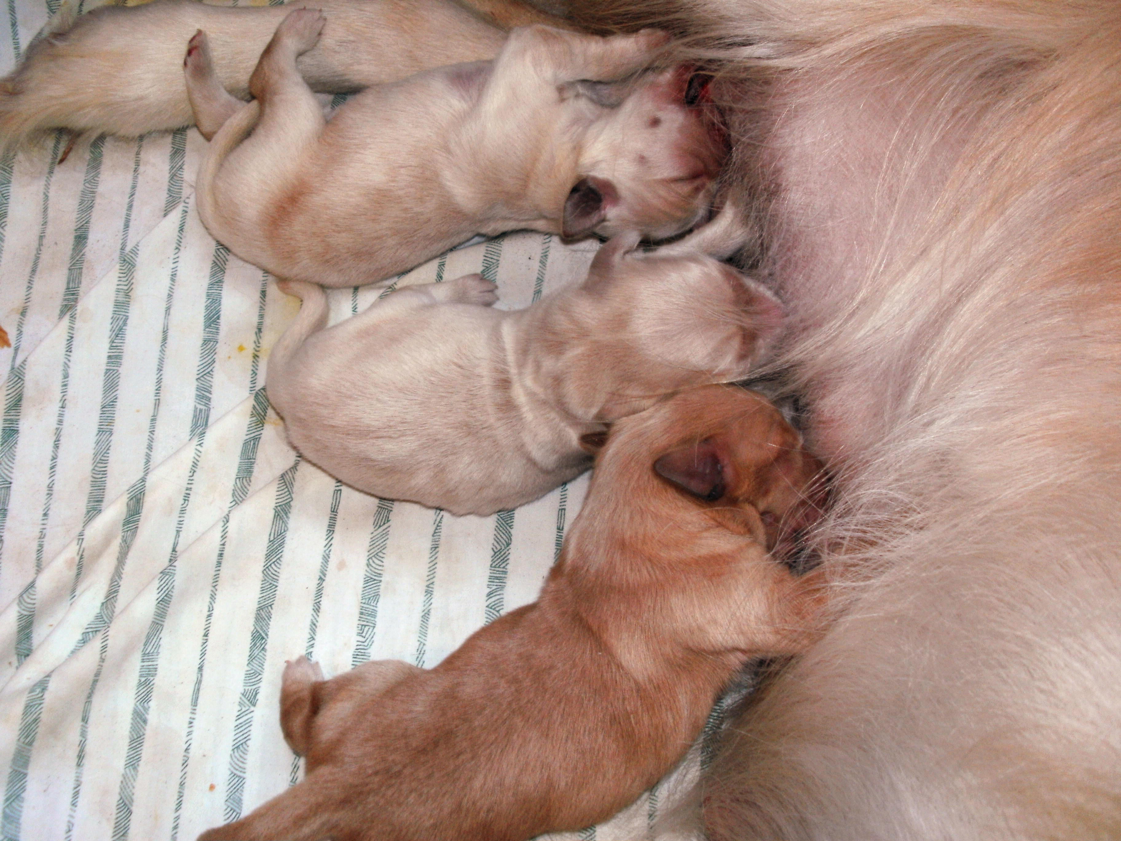 Newborn Golden Retriever puppies.